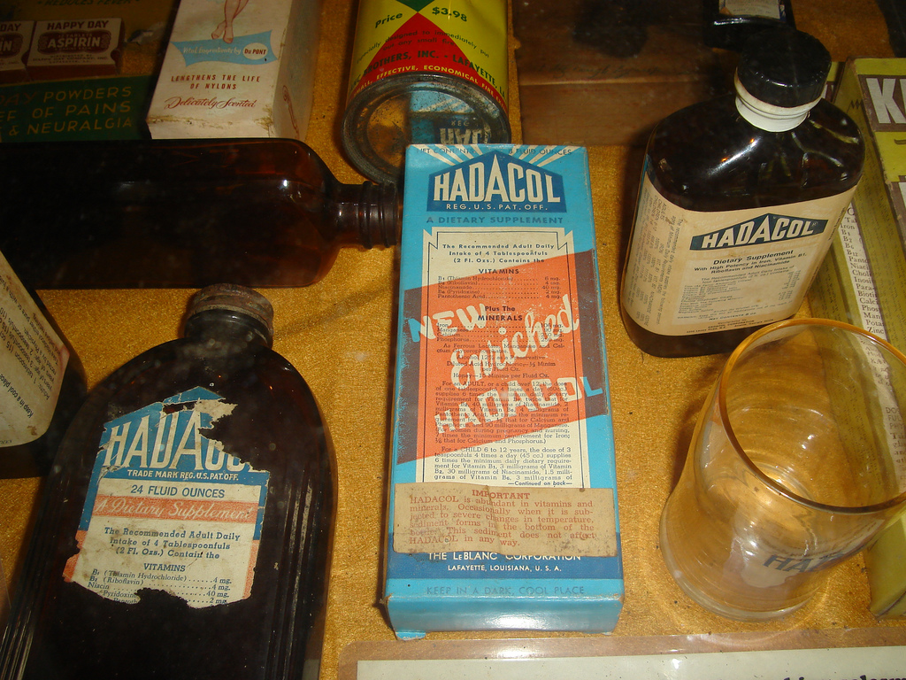 Hadacol bottles and box, Village Acadien Lafayette museum, Louisinaa. for Hadacol article